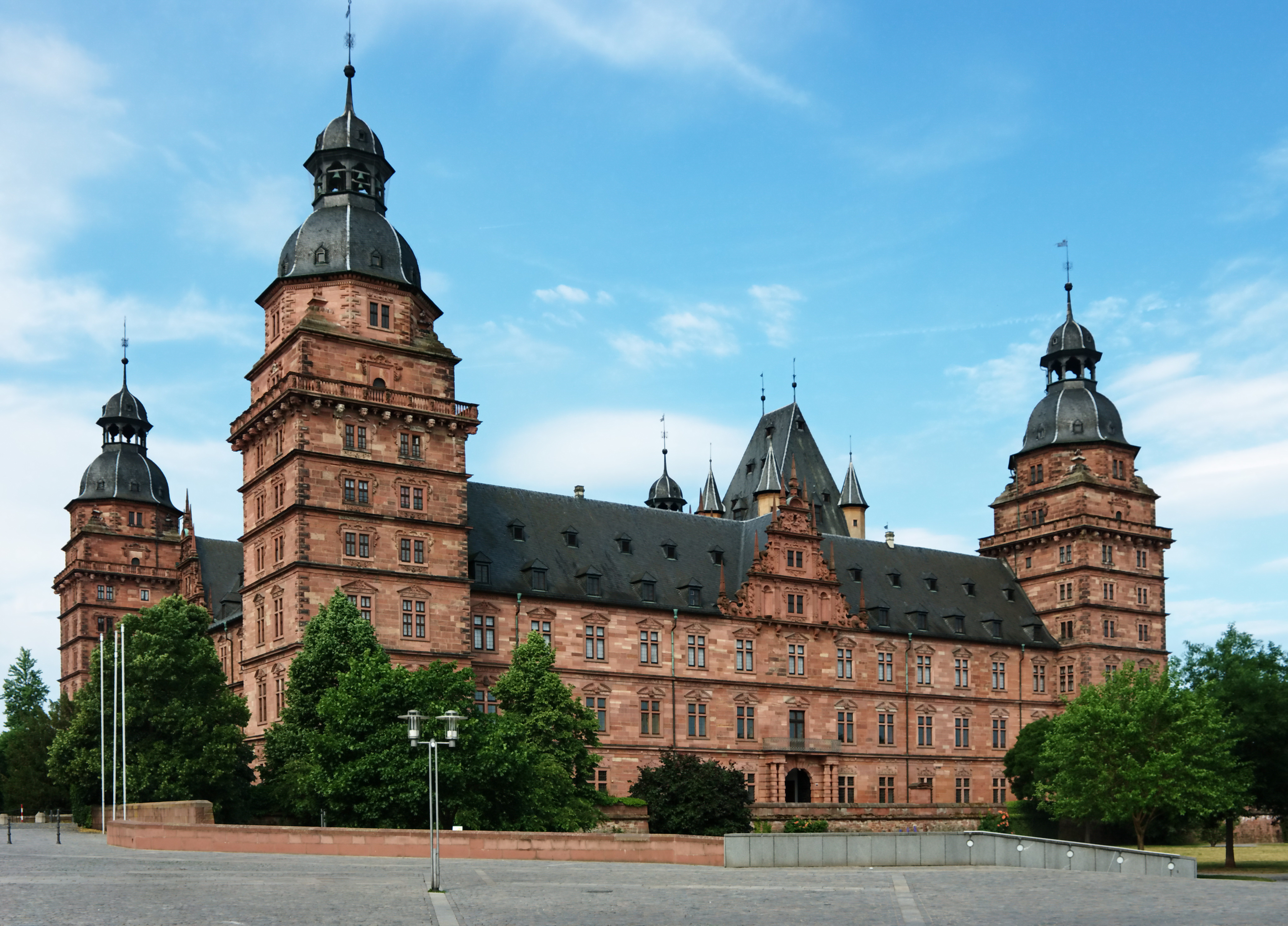 Schloss Johannisburg, a castle in Aschaffenburg